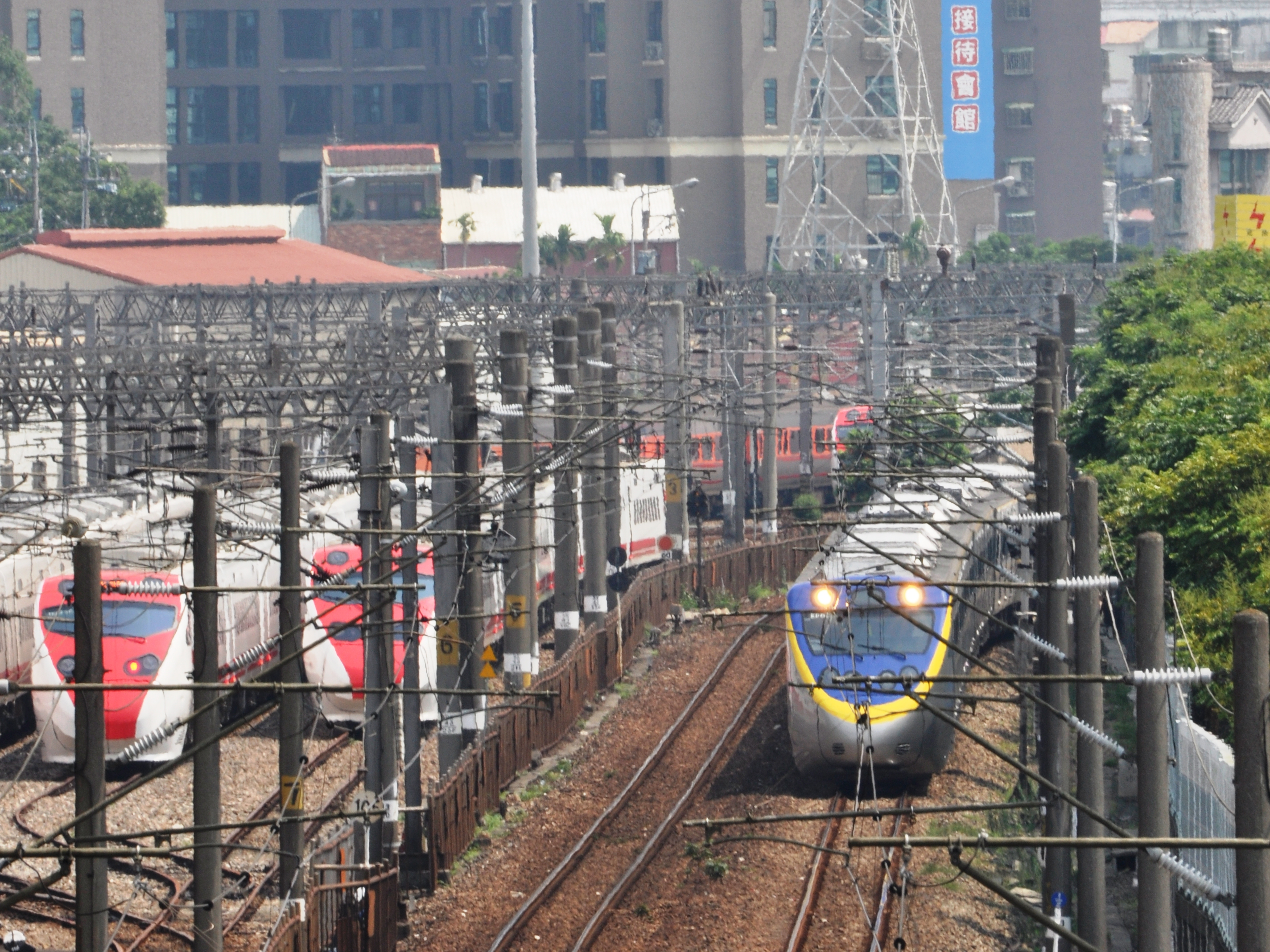 TRA EMU800 and TEMU2000 at Shulin Marshalling Yard.